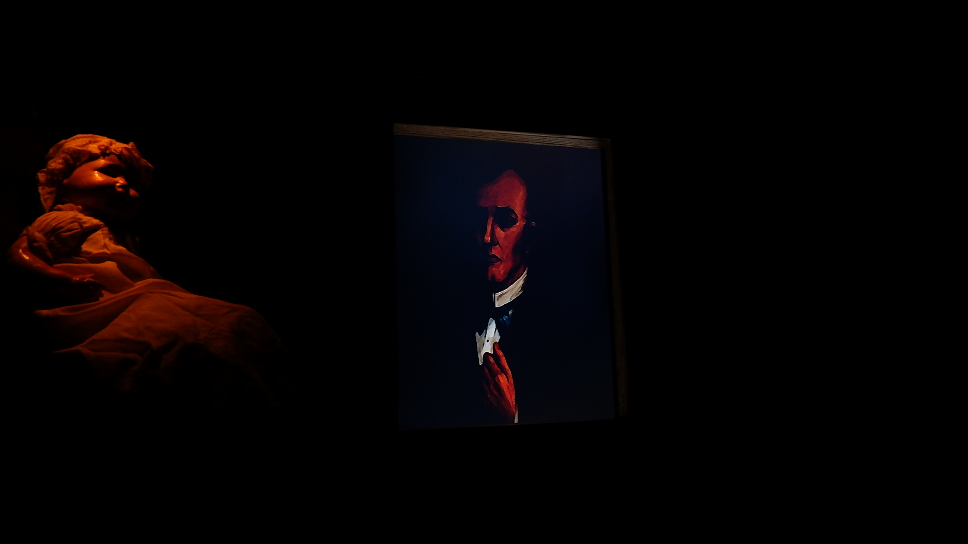 Granby Manor haunted house in Yorktown, VA